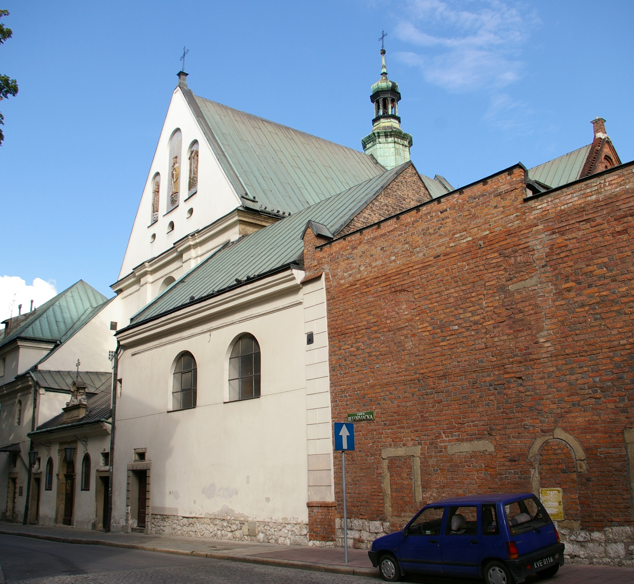 Church of St. Casimir in Kraków